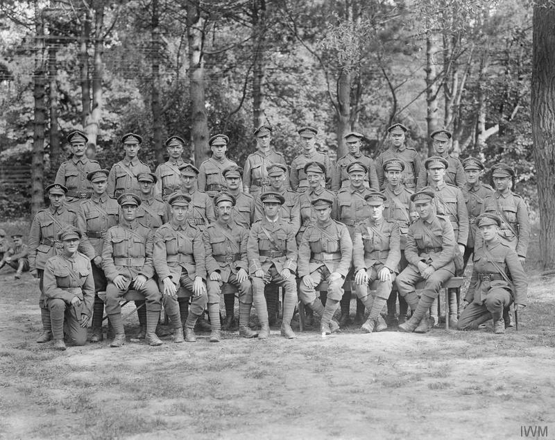 The British Army on the Western Front, 1914-1918 Staff of 1/5th Battalion, South Lancashire Regiment, 166th Brigade, 55th Division. Near Bethune, 5 September 1918.